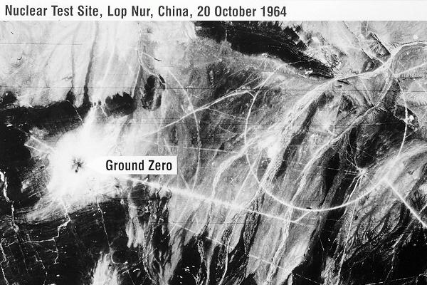 The Lop Nur Nuclear Test Range four days after the test of "596". Image taken by a KH-4 Corona intelligence satellite.